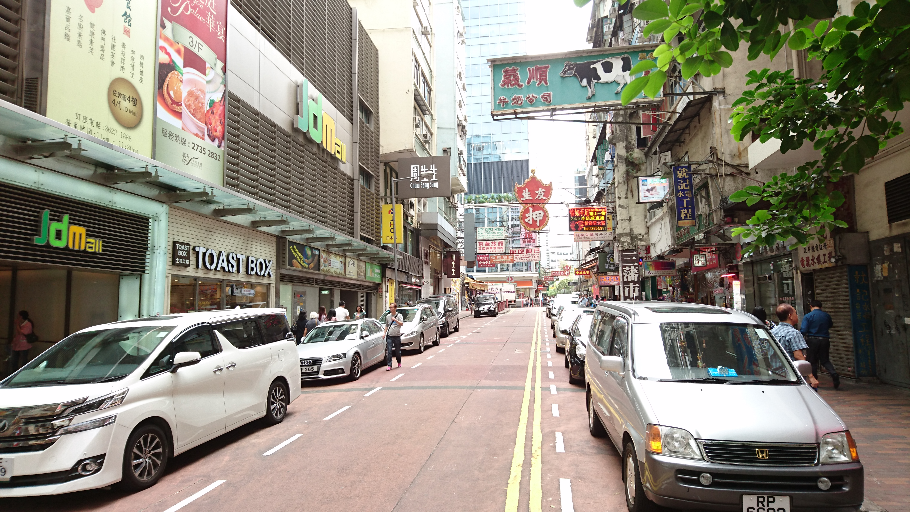 Pilkem Street near Jordan Road